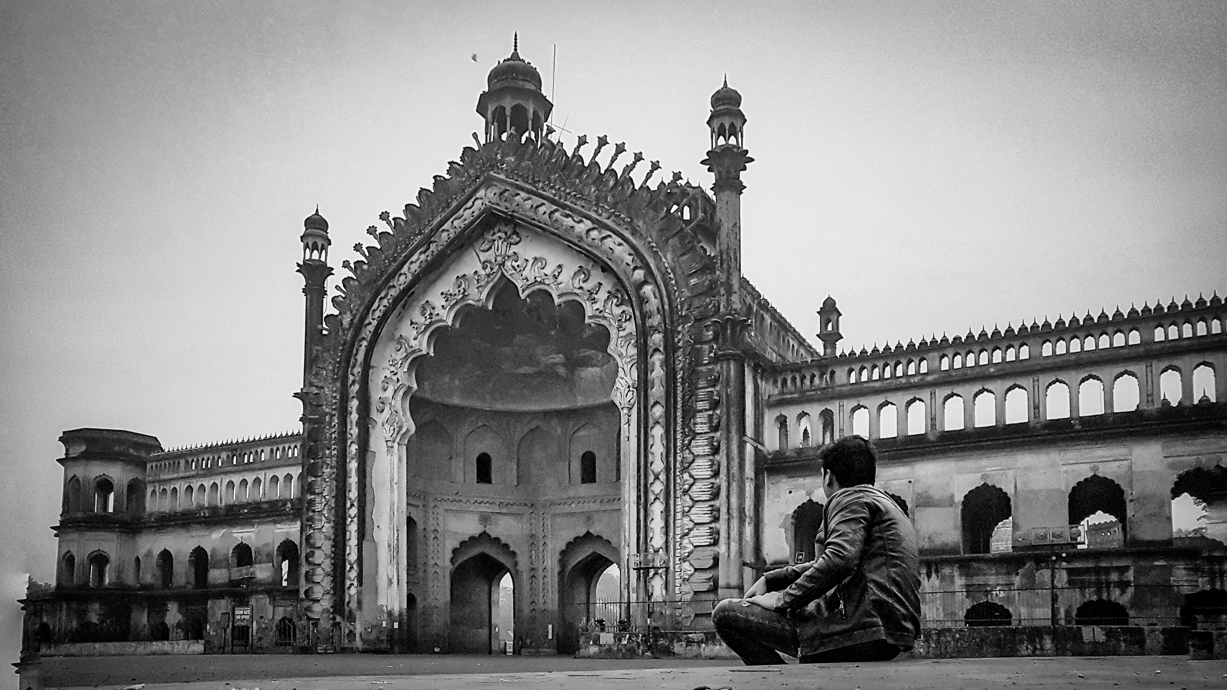 Roomi darwazaa, lucknow